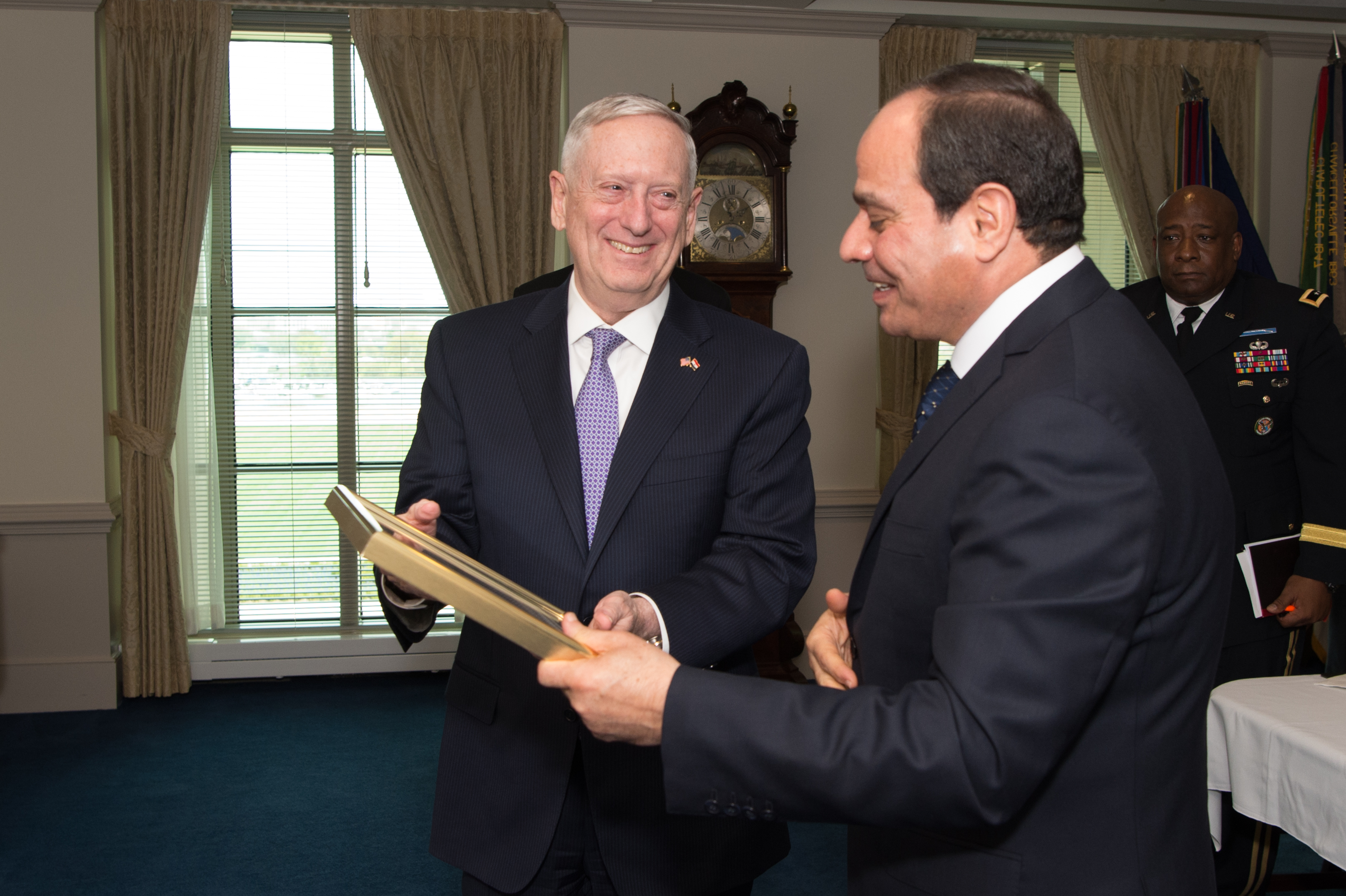 Defense Secretary Jim Mattis meets with Egypt’s President Abdul Fattah al-Sisi during a meeting held at the Pentagon in Washington, D.C., April 5, 2017. (DOD photo by U.S. Army Sgt. Amber I. Smith)